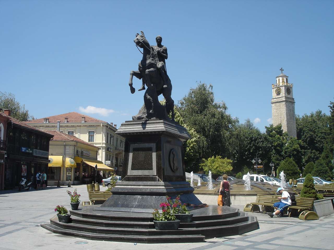 The monument of Phillip II of Macedon and the clock tower in Bitola, Macedonia